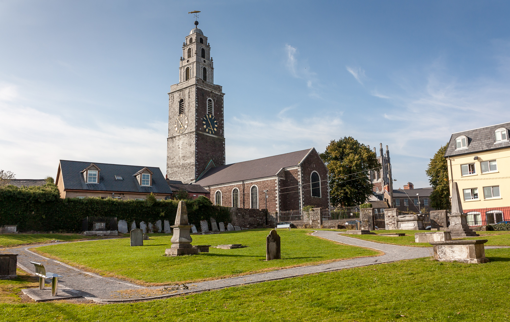 North Infirmary-St Annes Church